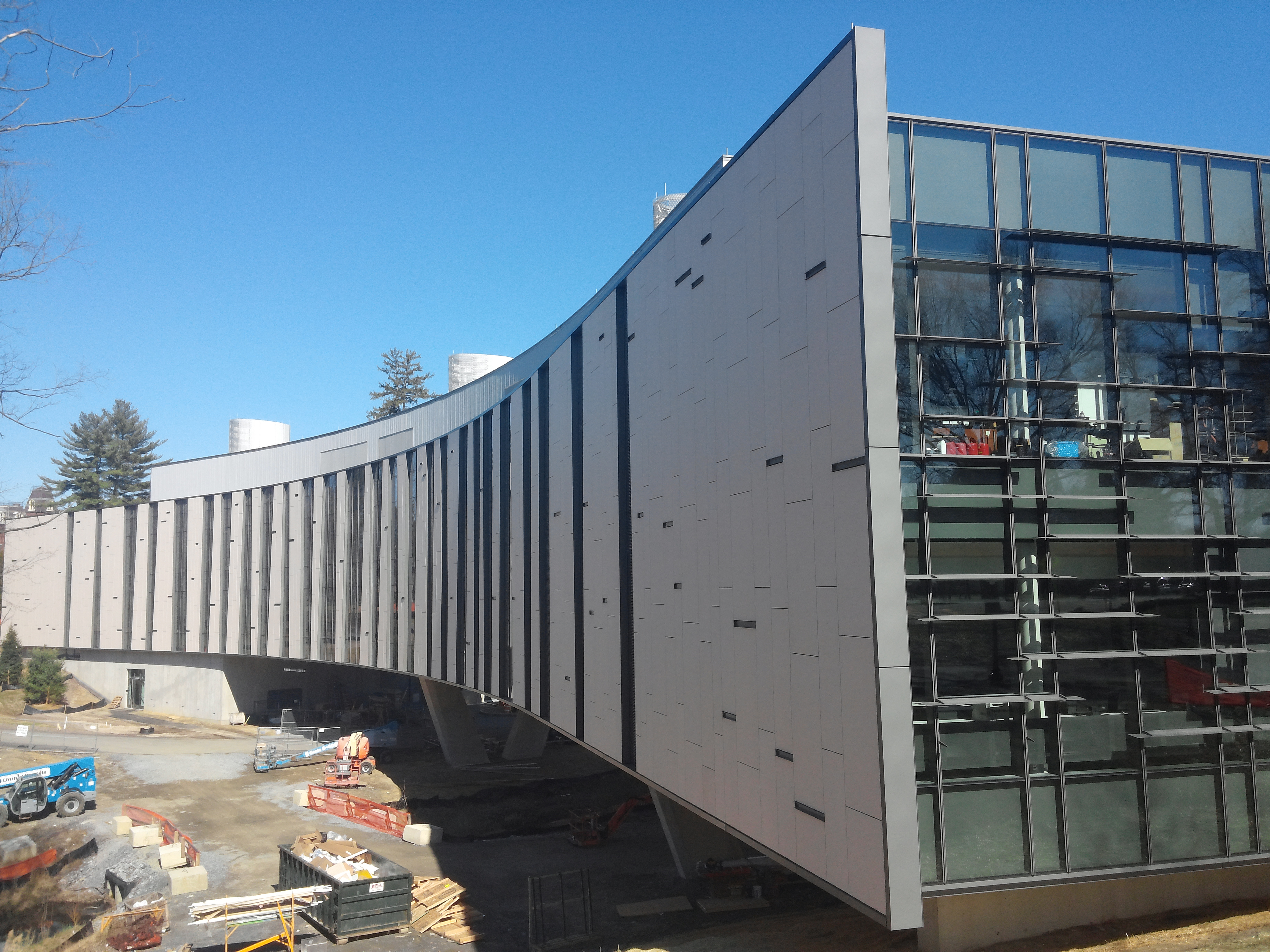 The Bridge for Laboratory Sciences from the west side, on the campus of Vassar College in the town of Poughkeepsie, New York, US.